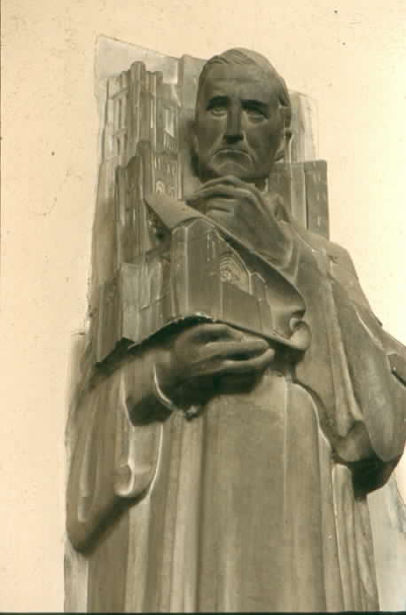 photo by Einar Einarsson Kvaran Lee Lawrie